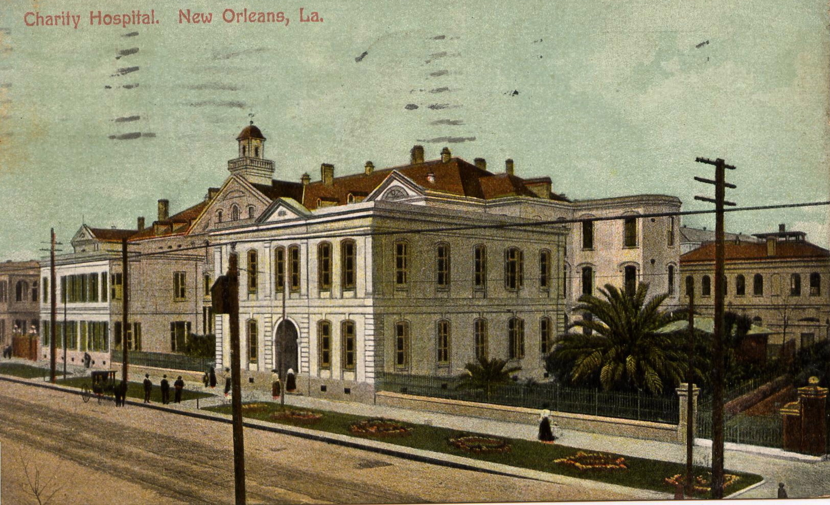 Postcard of New Orleans showing old Charity Hospital Building (the one that was torn down before the newer one built in the 1930s). People on street and carriage in fashion of the very start of the 20th century.